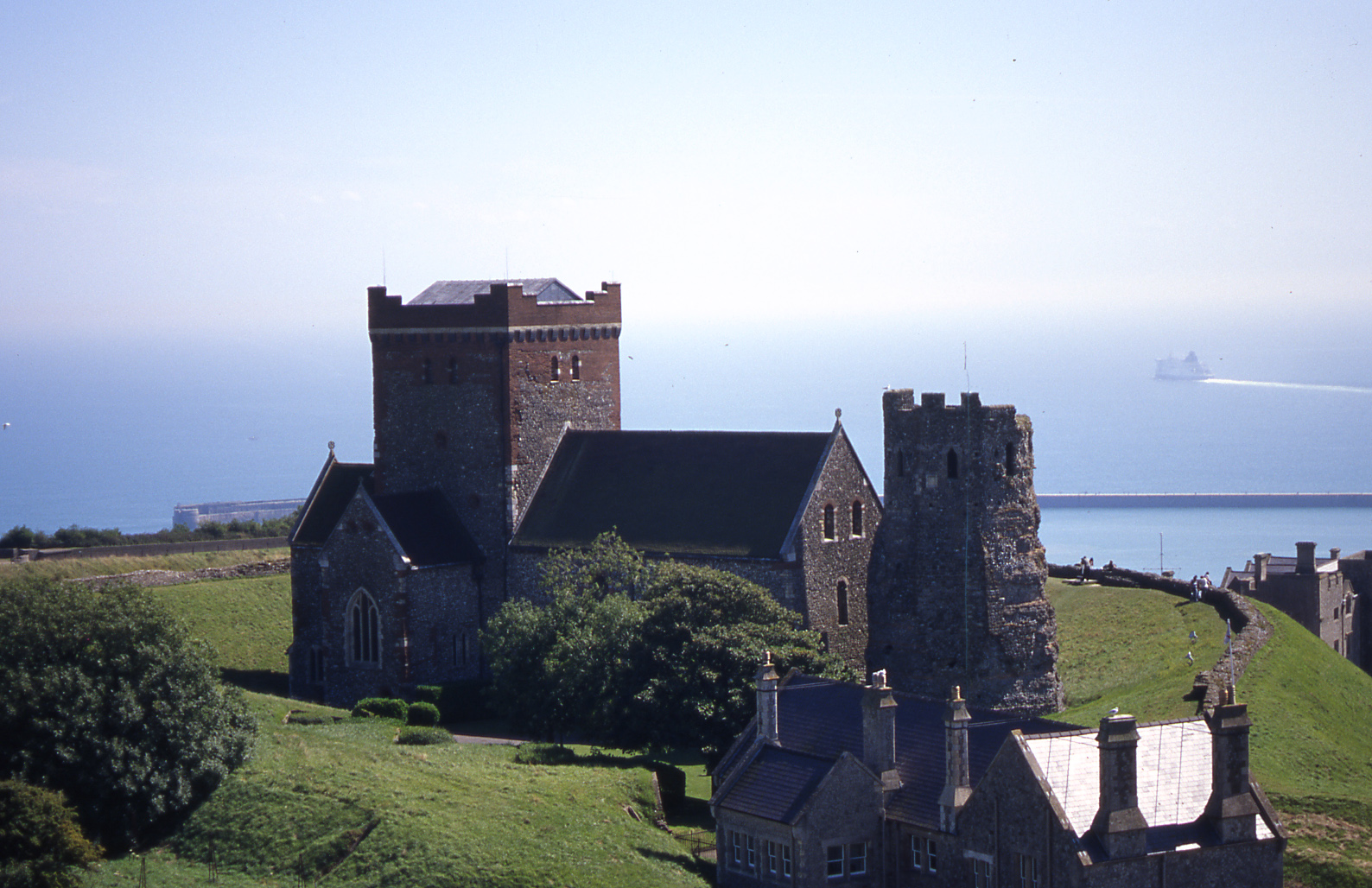 The English Channel as seen from Dover Castle (picture by Marco Sinibaldi, August 2005) The church of St Mary in Castro in the grounds of Dover Castle, Kent, south-east England. (additional description by User:JackyR)